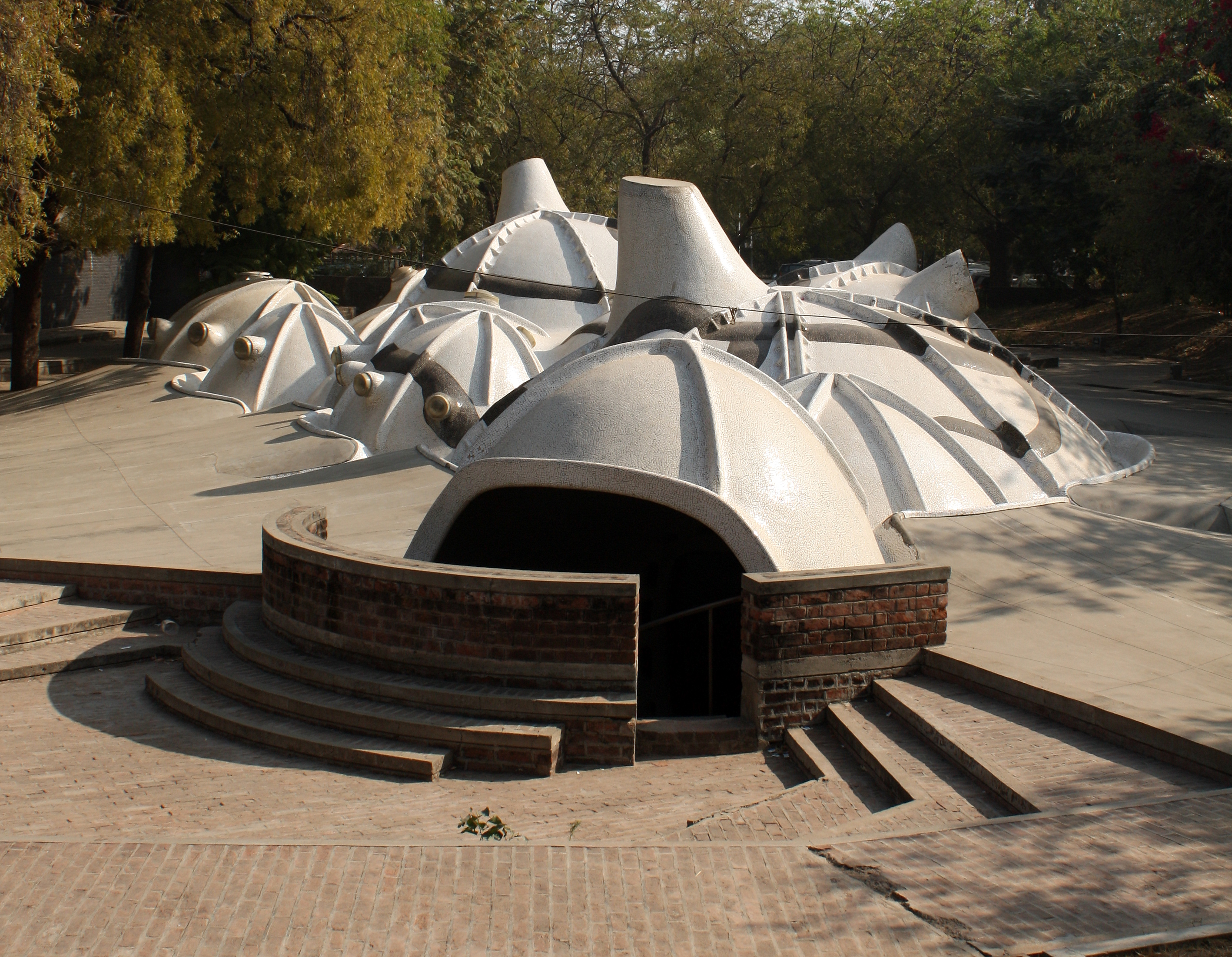 its a creative place where exhibitions are held by creative people..!!!